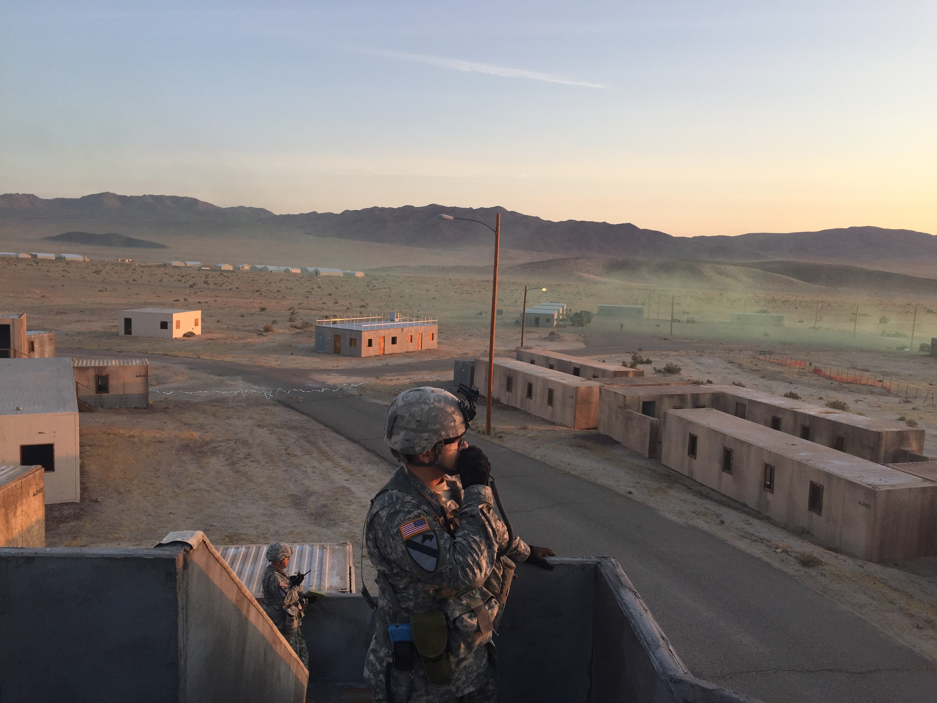 Task Force Palehorse at the National Training Center Observer-Controller/Trainer's of Task Force Palehorse watch as elements of a Rotational Training Unit (RTU) clear the town of Razish defended by Donovian Infantry and Insurgent Forces of the Bilasuvar Freedom Brigade